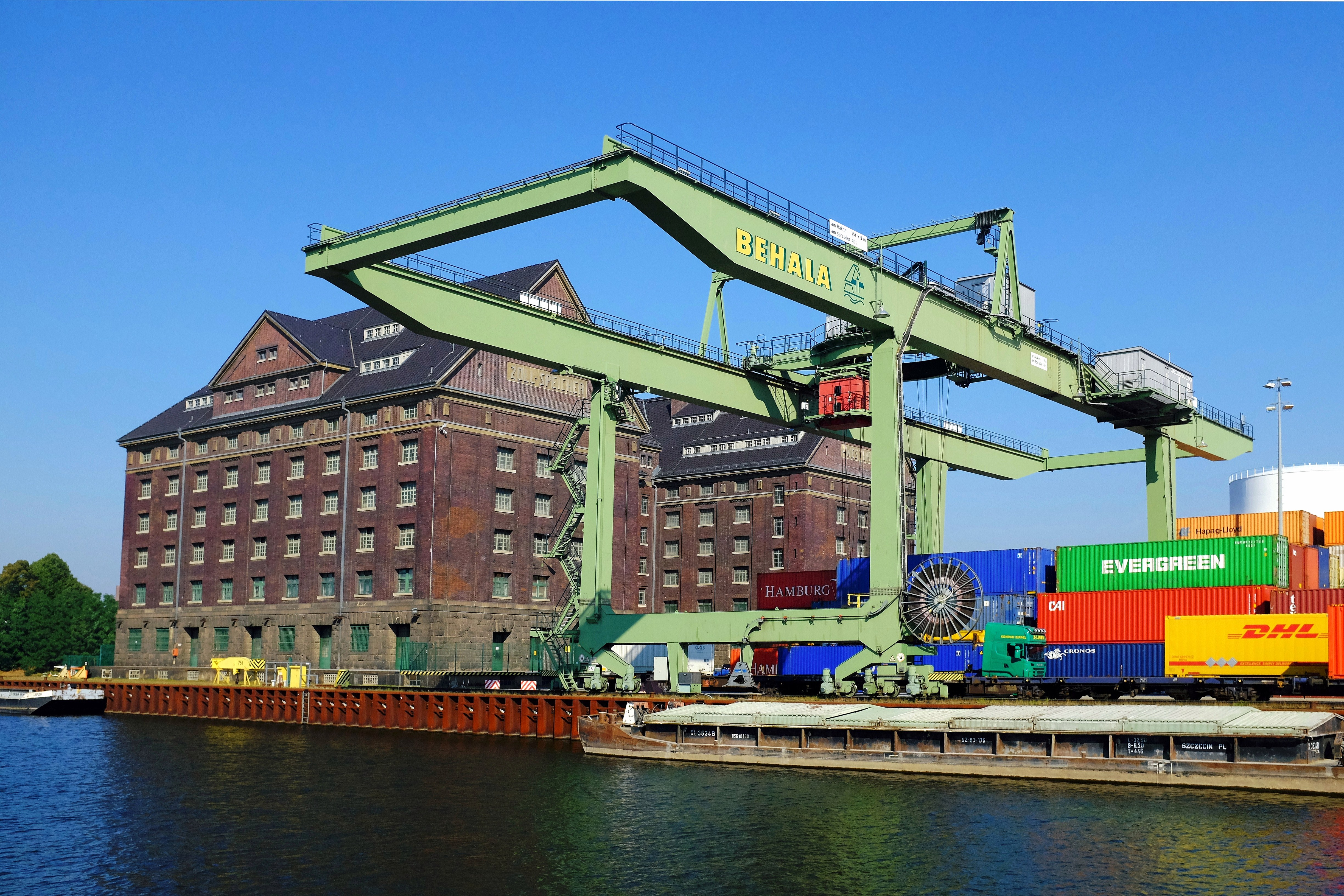 westhafen